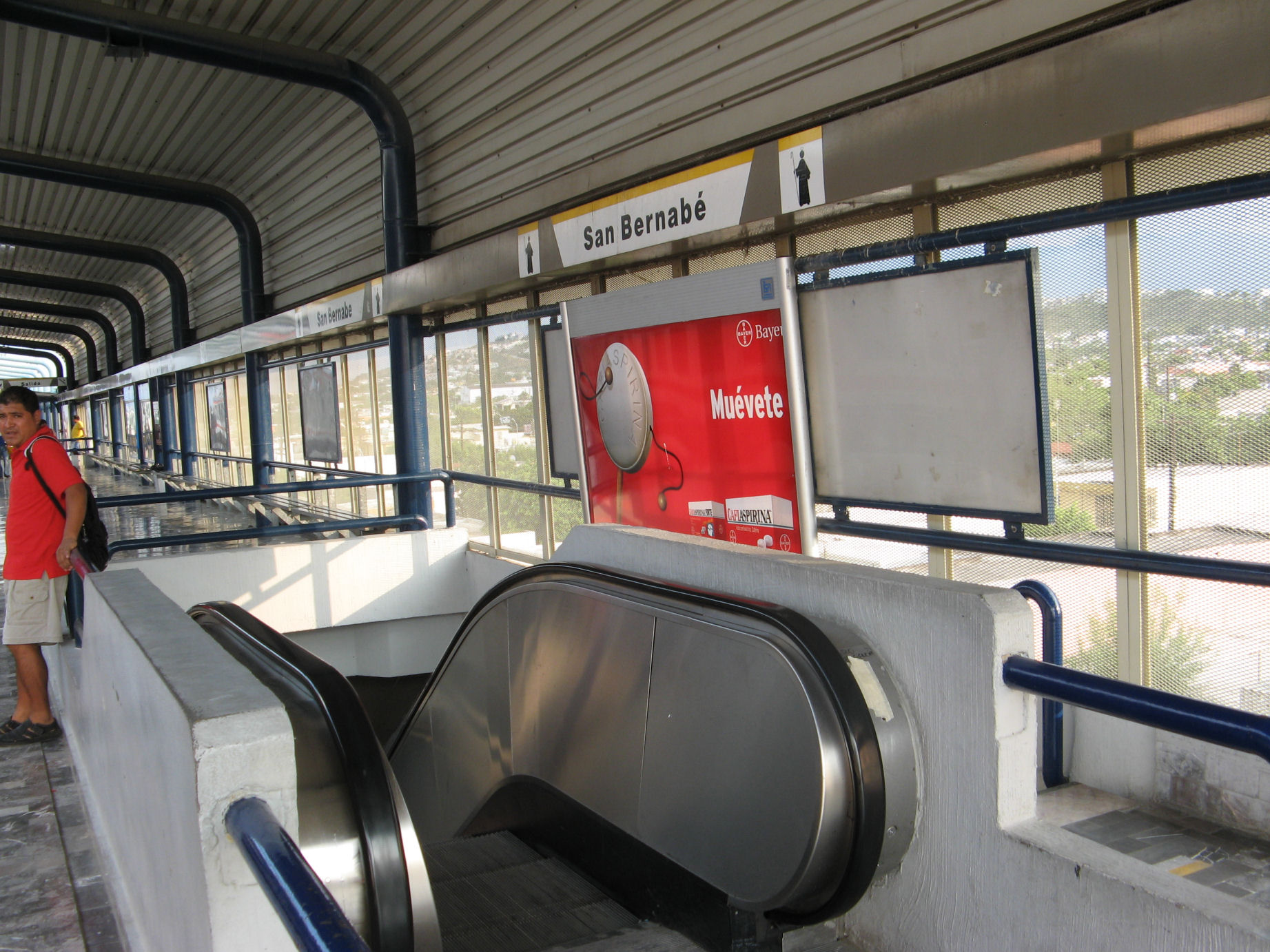 Hospital Station - Line 1 of the Monterrey Metro